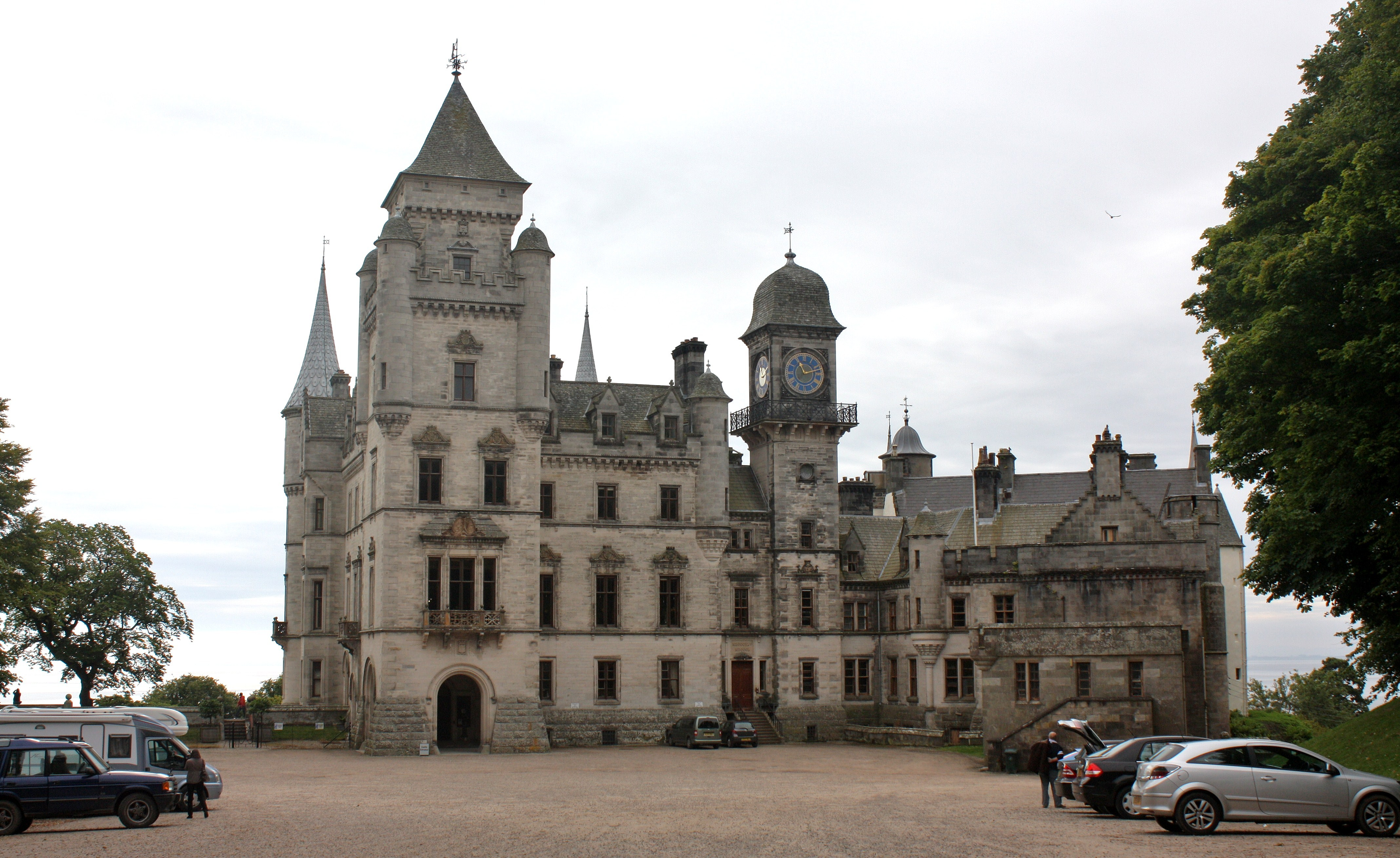 West entrance of Dunrobin Castle. Highland council area, Scotland.